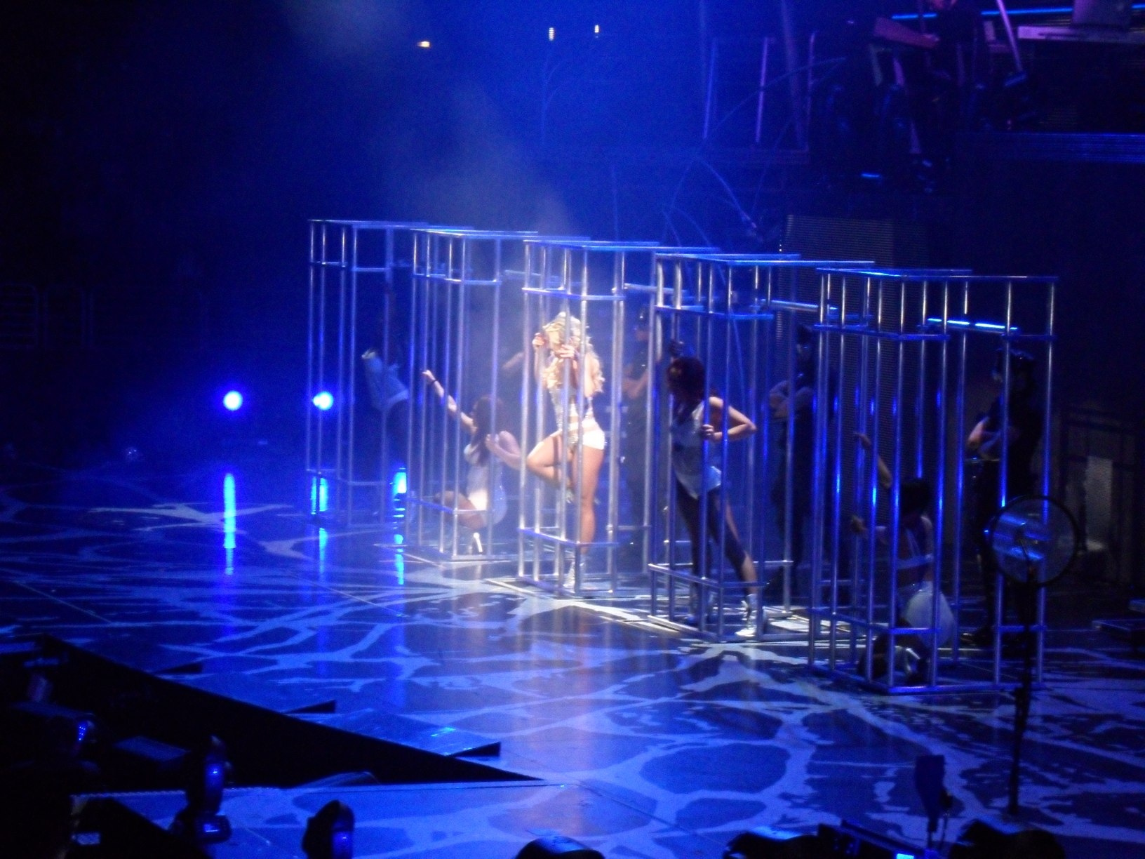 Spears and her dancers performing "Up n' Down" inside cages.